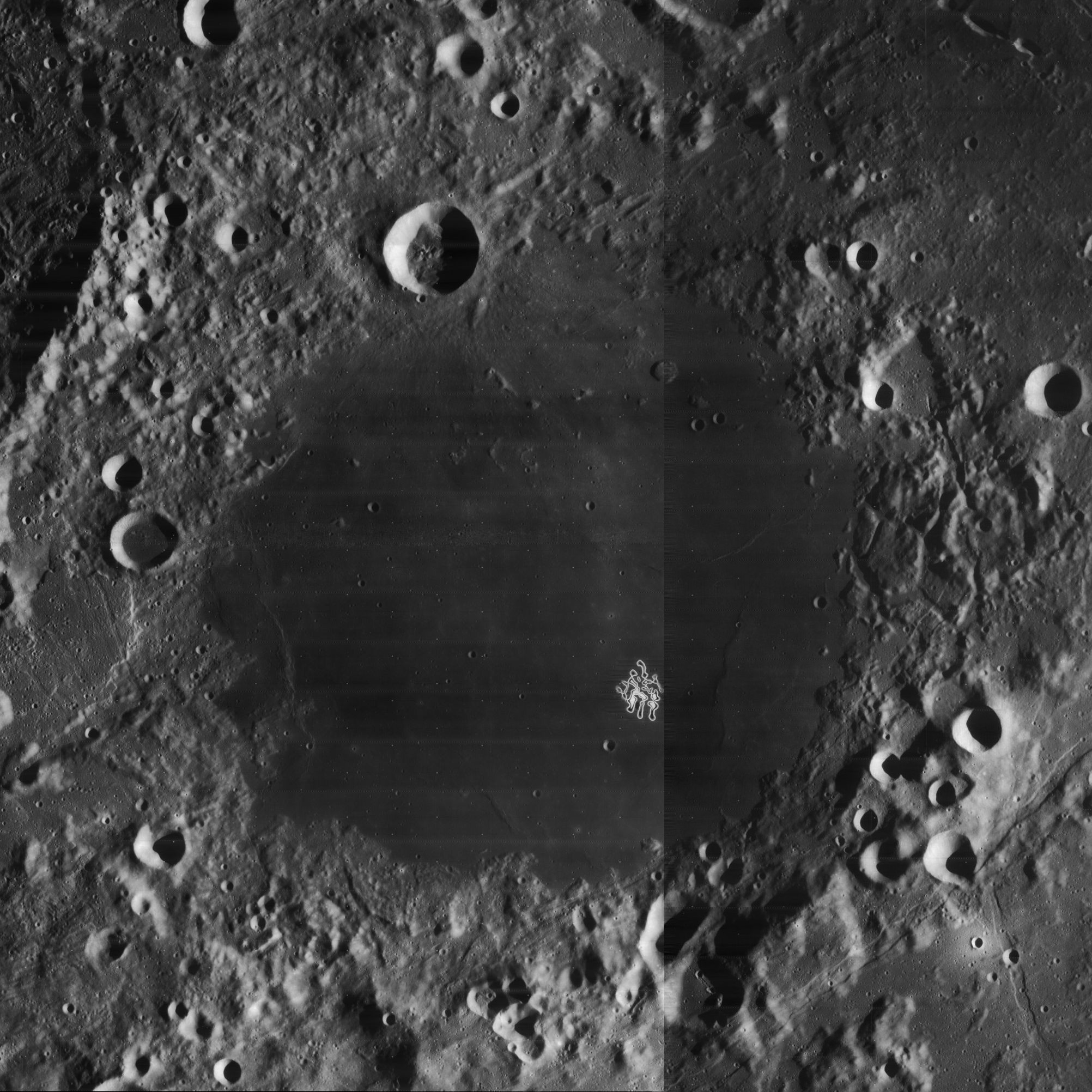 Grimaldi, on the moon. The spot below right of center is a blemish on the original.